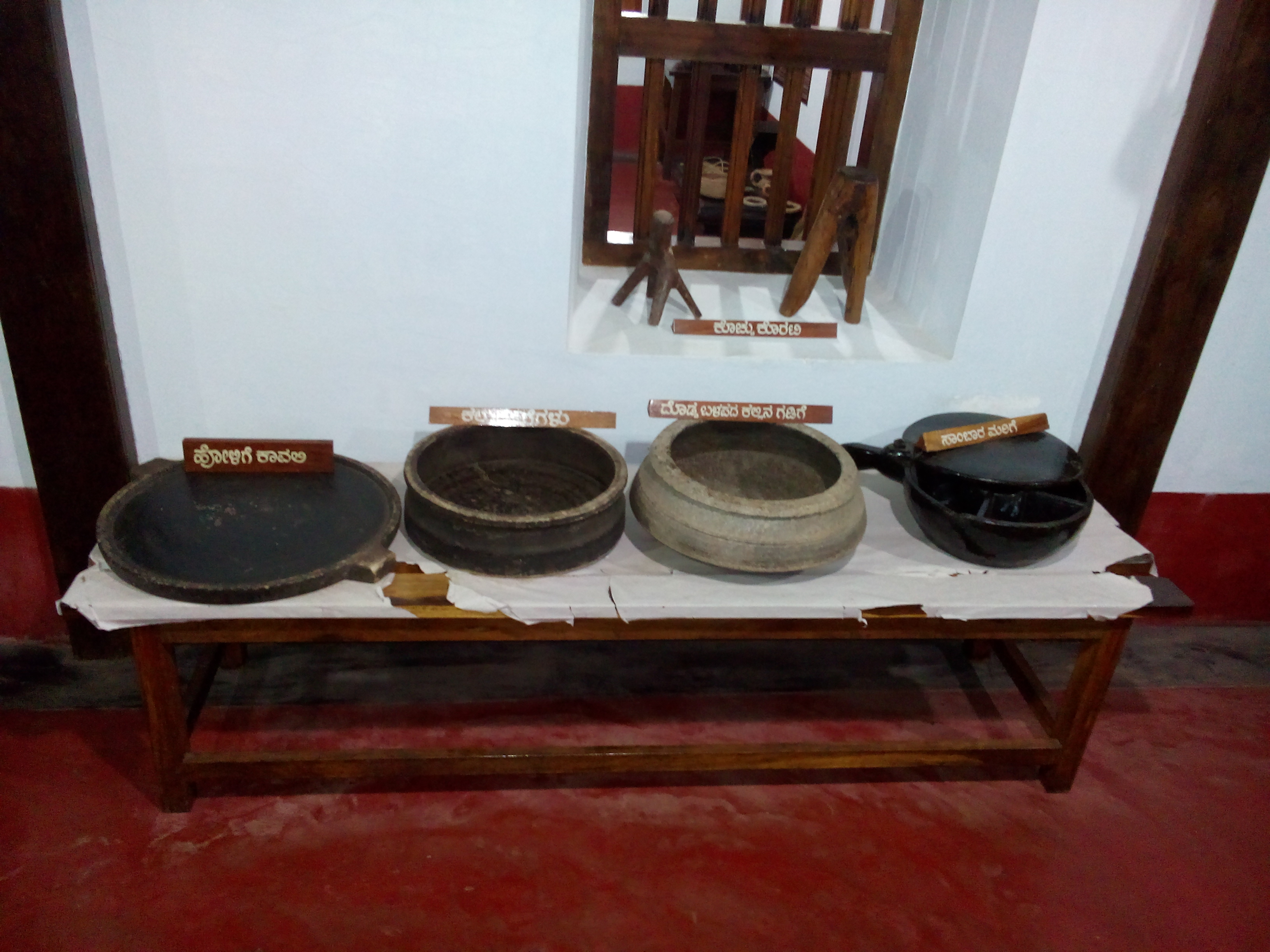 different kinds of vesseles